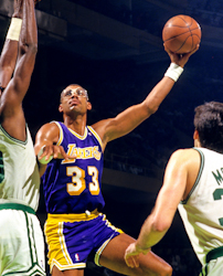 Los Angeles Lakers Kareem Abdul-Jabbar with Boston Celtics Robert Parish and Kevin McHale late 1980s